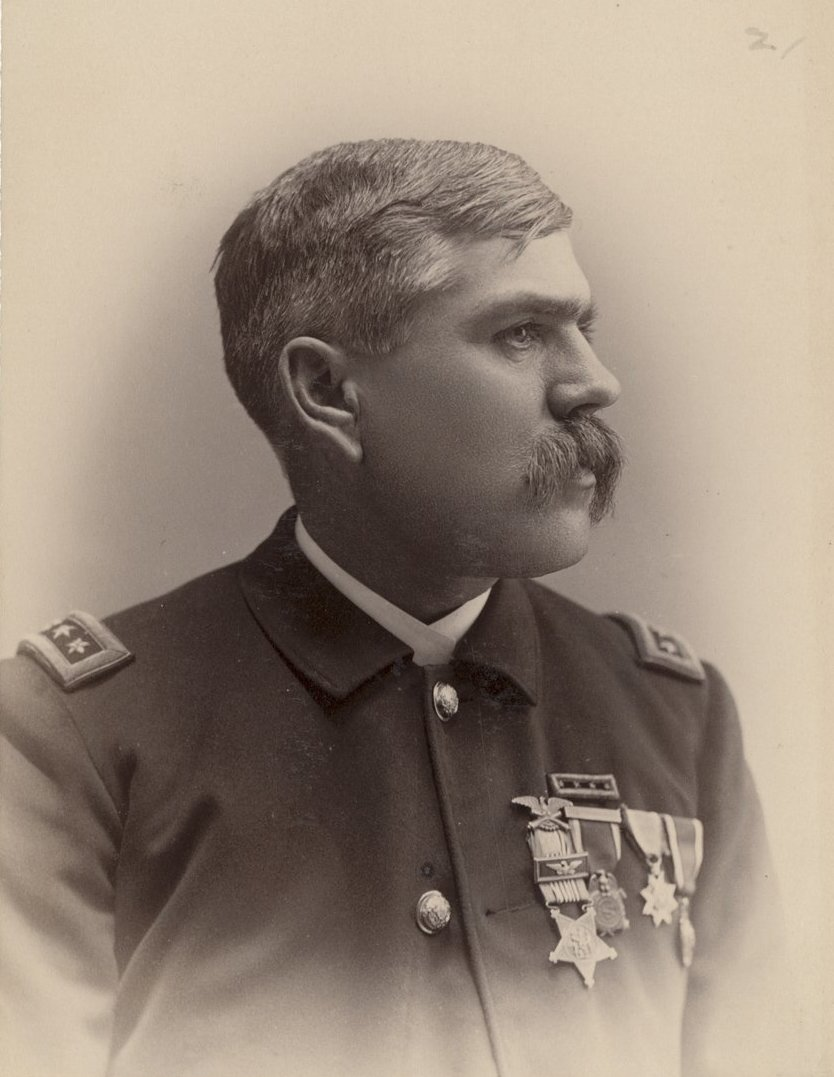 Leland Justin Webb by H. T. Martin, Kansas Historical Society